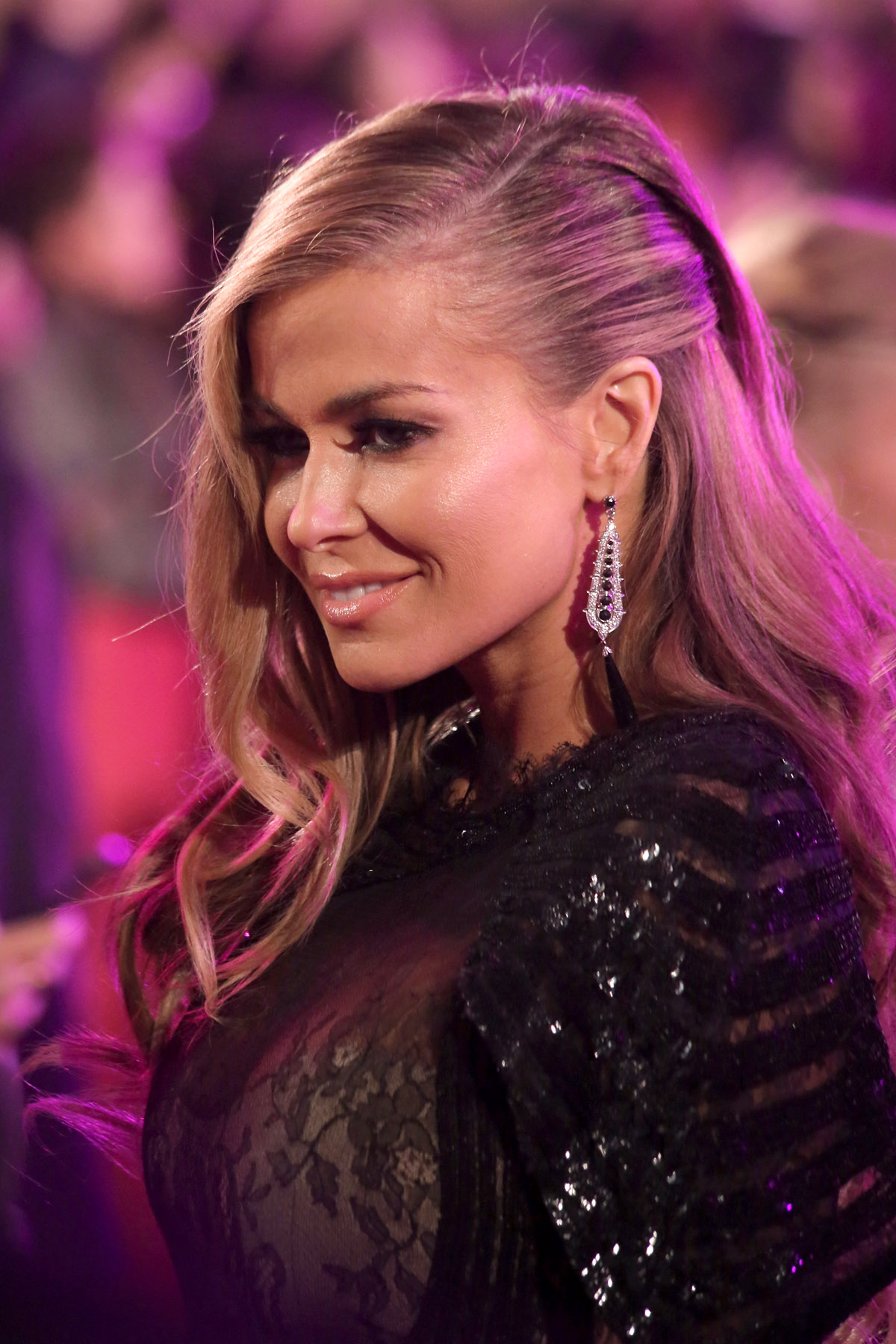 Carmen Electra on the 'magenta carpet' at Life Ball 2013 at the square in front of the city hall of Vienna, Vienna, Austria.